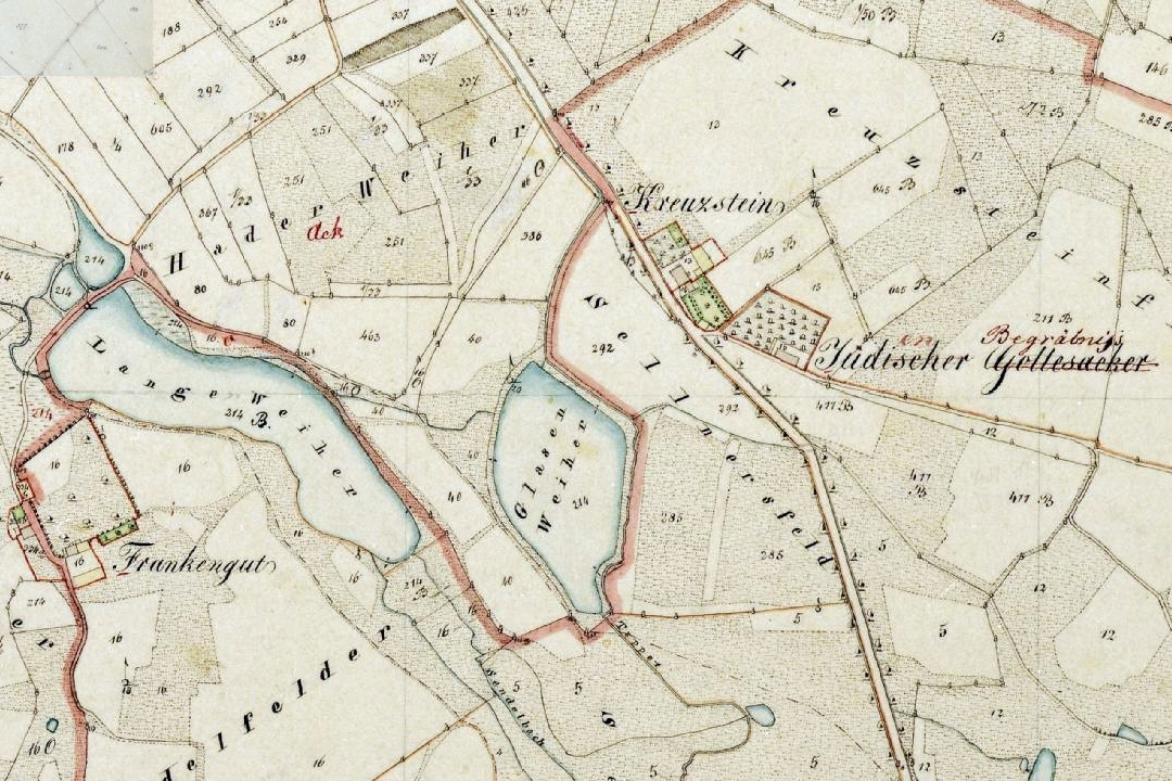 Jewish cemetary of Bayreuth in the Uraufnahme of the Kingdom of Bavaria (first cadastral surveying of the country, first half of the 19th century). Origiinal description "Jüdischer Gottesacker" (Jewish god's acre), revision to "Juden-Begräbnis" (Jews burial ground)